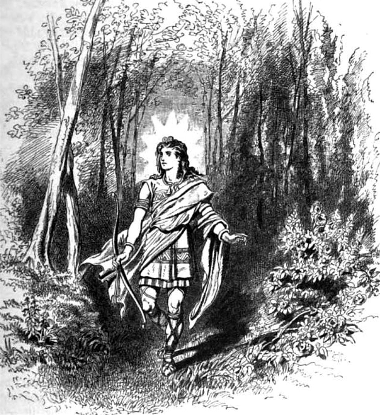 Wali. Váli, holding a bow, travelling through a forest.